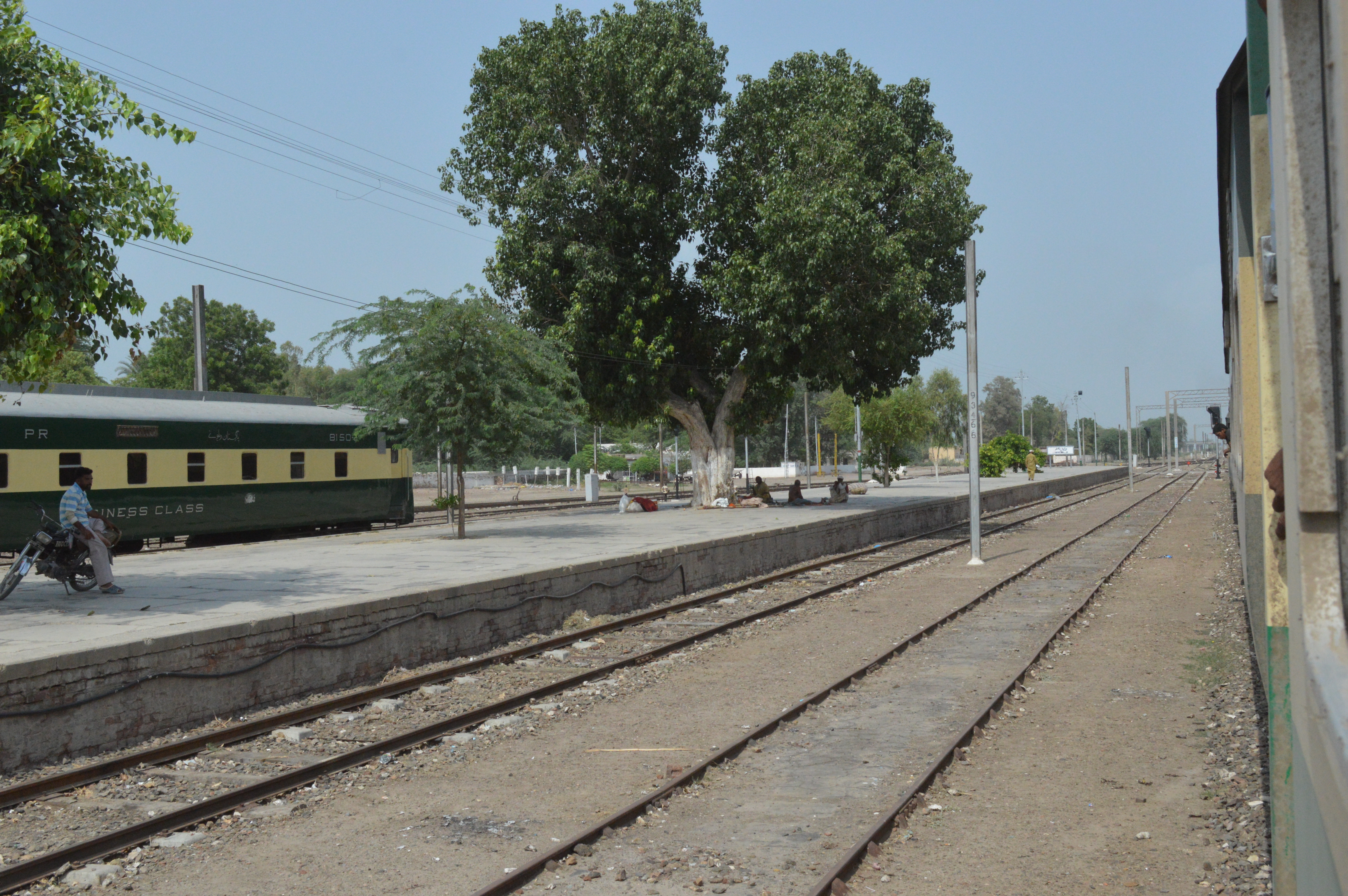 Khanewal Junction railway station This is a photo of a monument in Pakistan identified as the PB-U-30